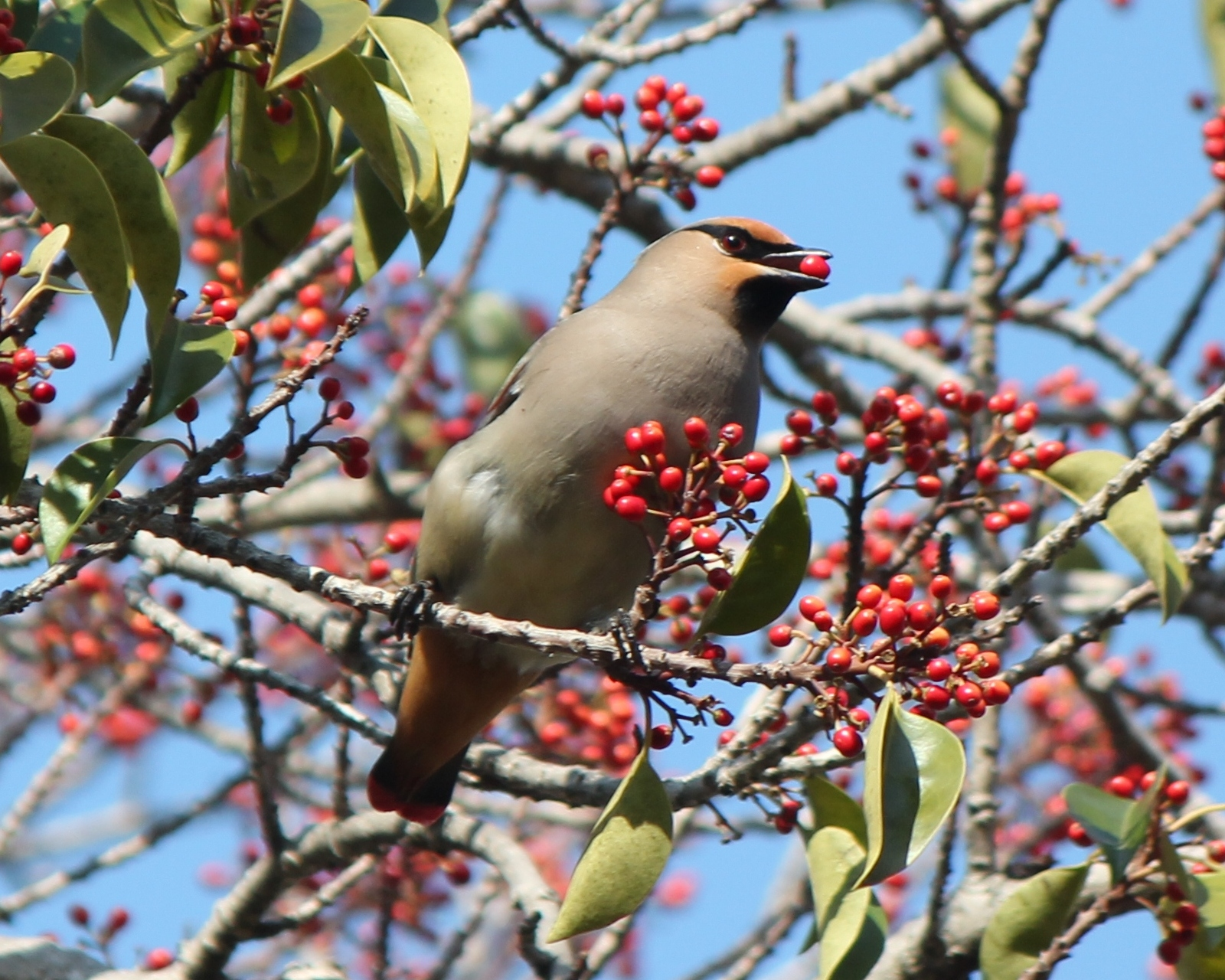 Japanese waxwing (Bombycilla japonica), flocks eating fruits of Ilex rotunda, in Gifu prefecture, Japan.